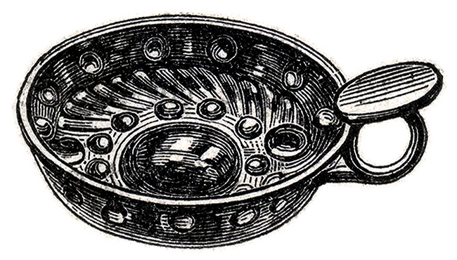 Wine testing cup. Picture from "Dictionnaire encyclopédique de l'épicerie et des industries annexes" par Albert Seigneurie, édité par "L'Épicier" en 1904, page 258.